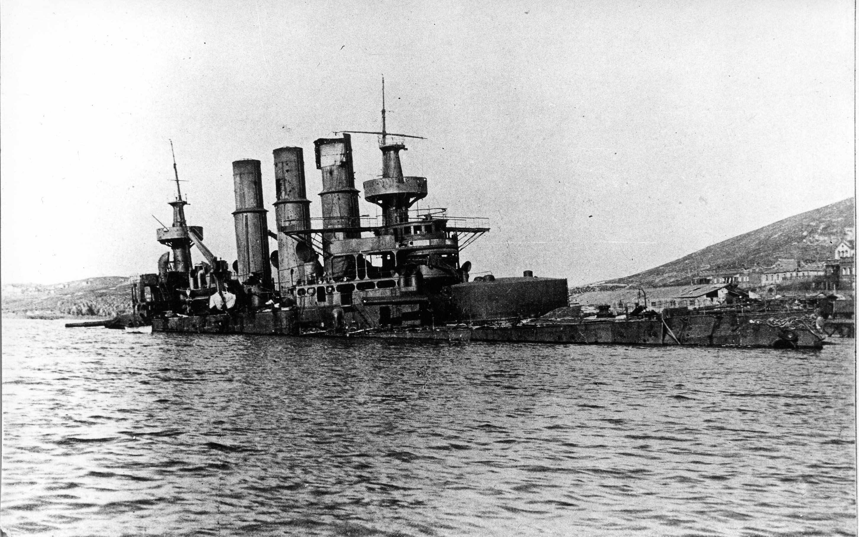 Battleship Retvizan.